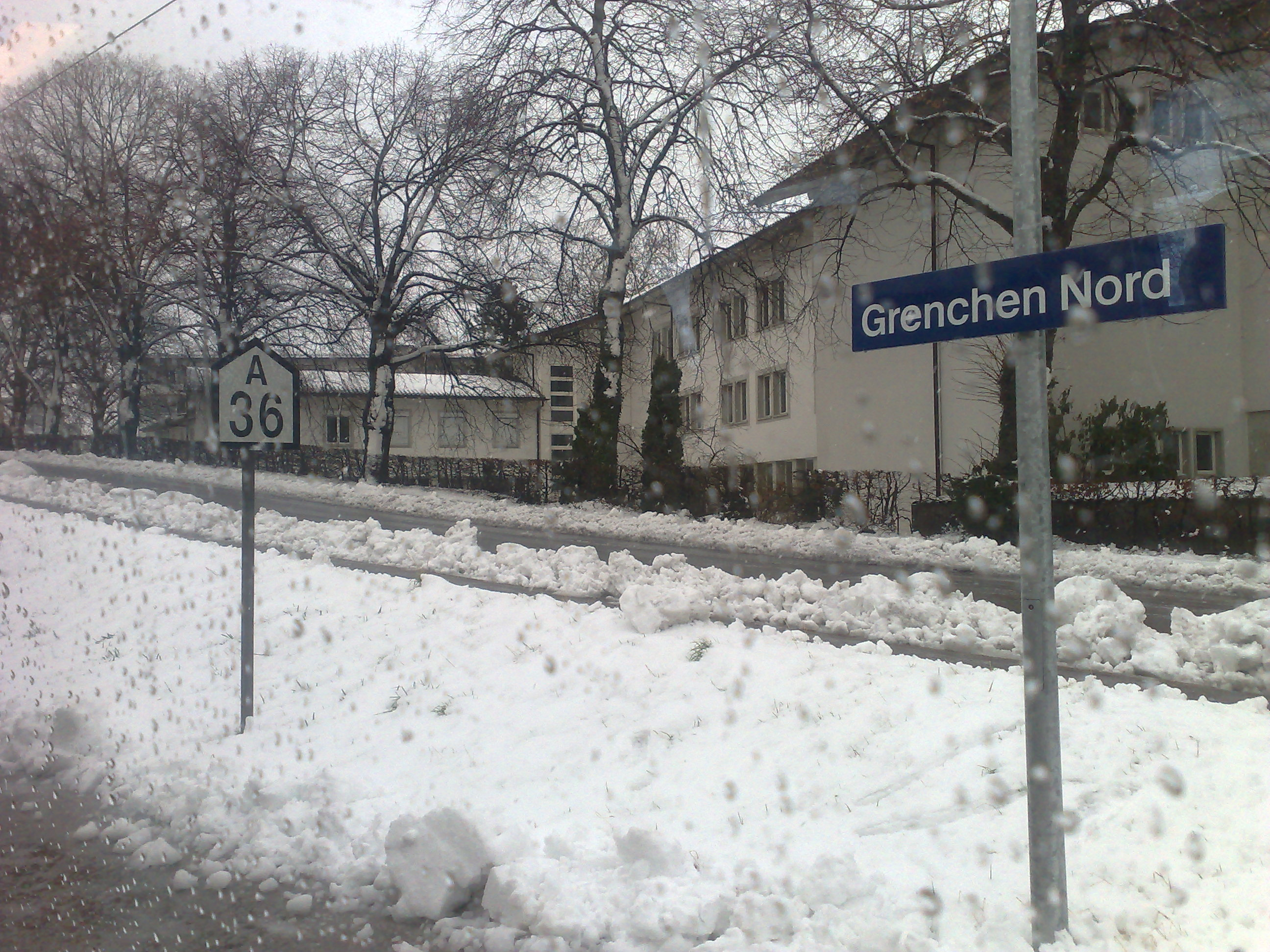 Grenchen Nord train station in Grenchen, SO, Switzerland